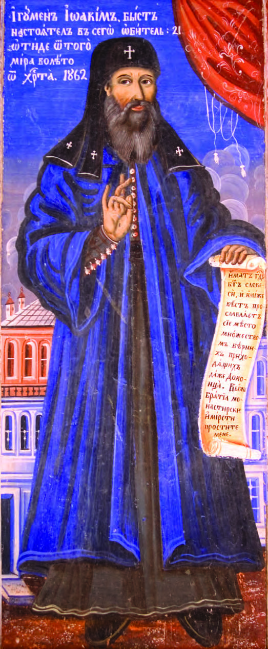 Ioakim of Bigor